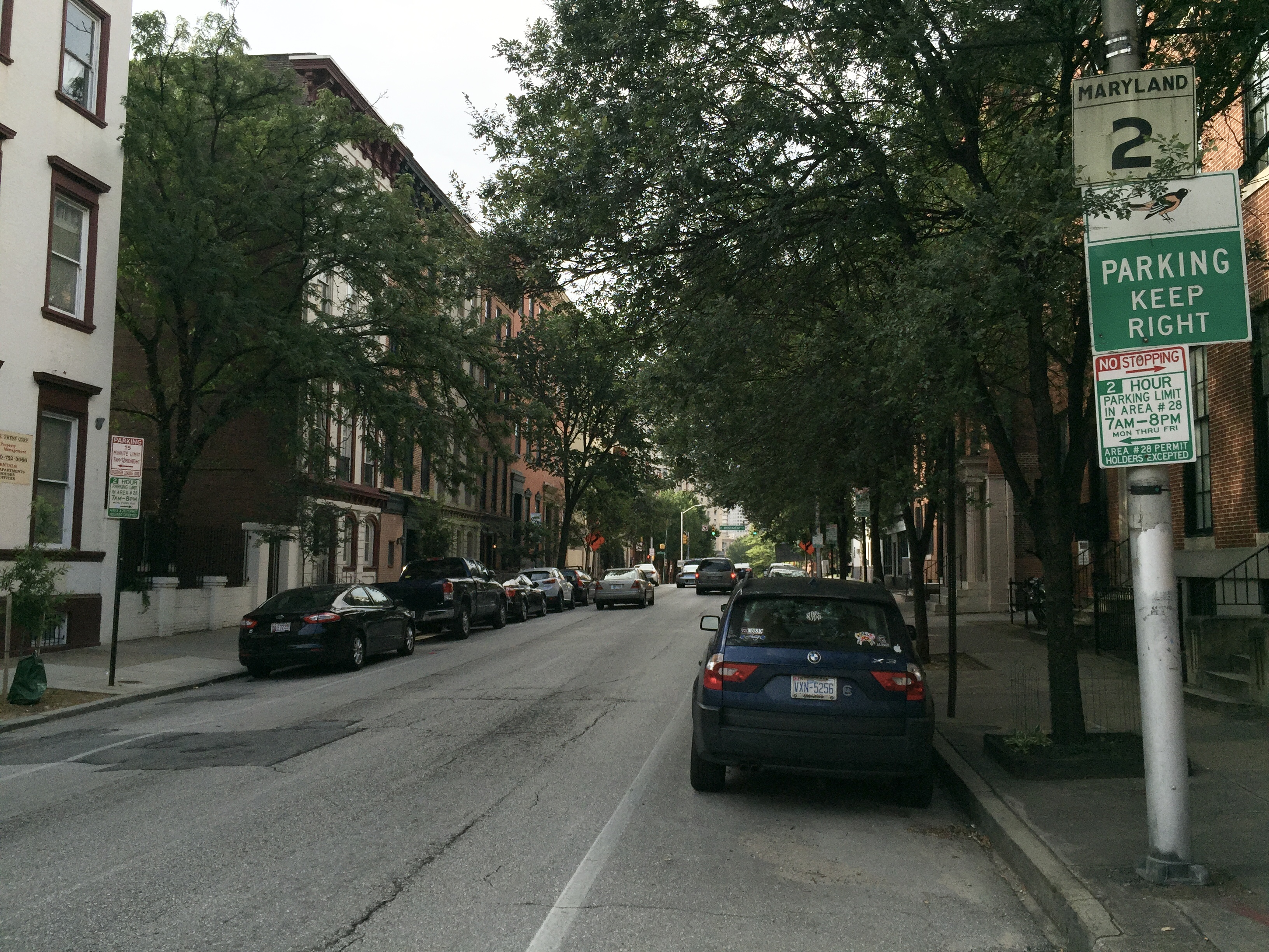 View south along Maryland State Route 2 (Saint Paul Street) at Madison Street in Baltimore City, Maryland